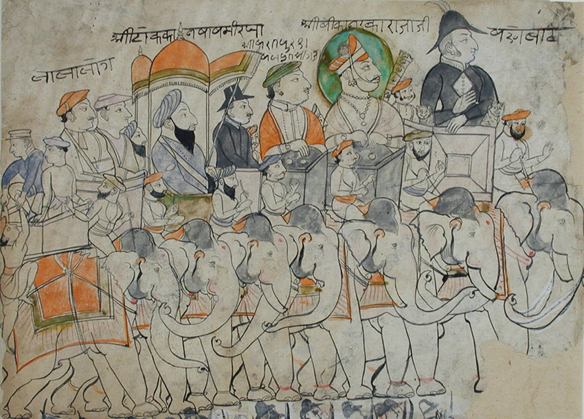 Creation Date: ca. 1850 Display Dimensions: 10 9/32 in. x 14 1/2 in. (26.1 cm x 36.8 cm) Credit Line: Edwin Binney 3rd Collection Accession Number: 1990.735 Collection: The San Diego Museum of Art